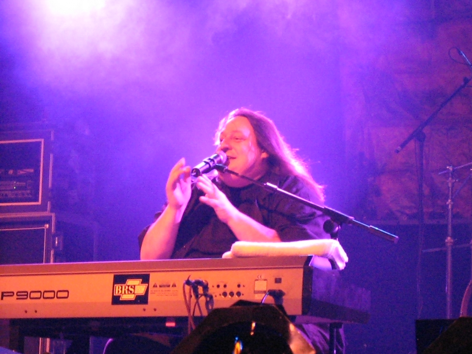 Jon Oliva's Pain on stage at ProgpowerUK 2, Cheltenham, England. March 31st 2007.